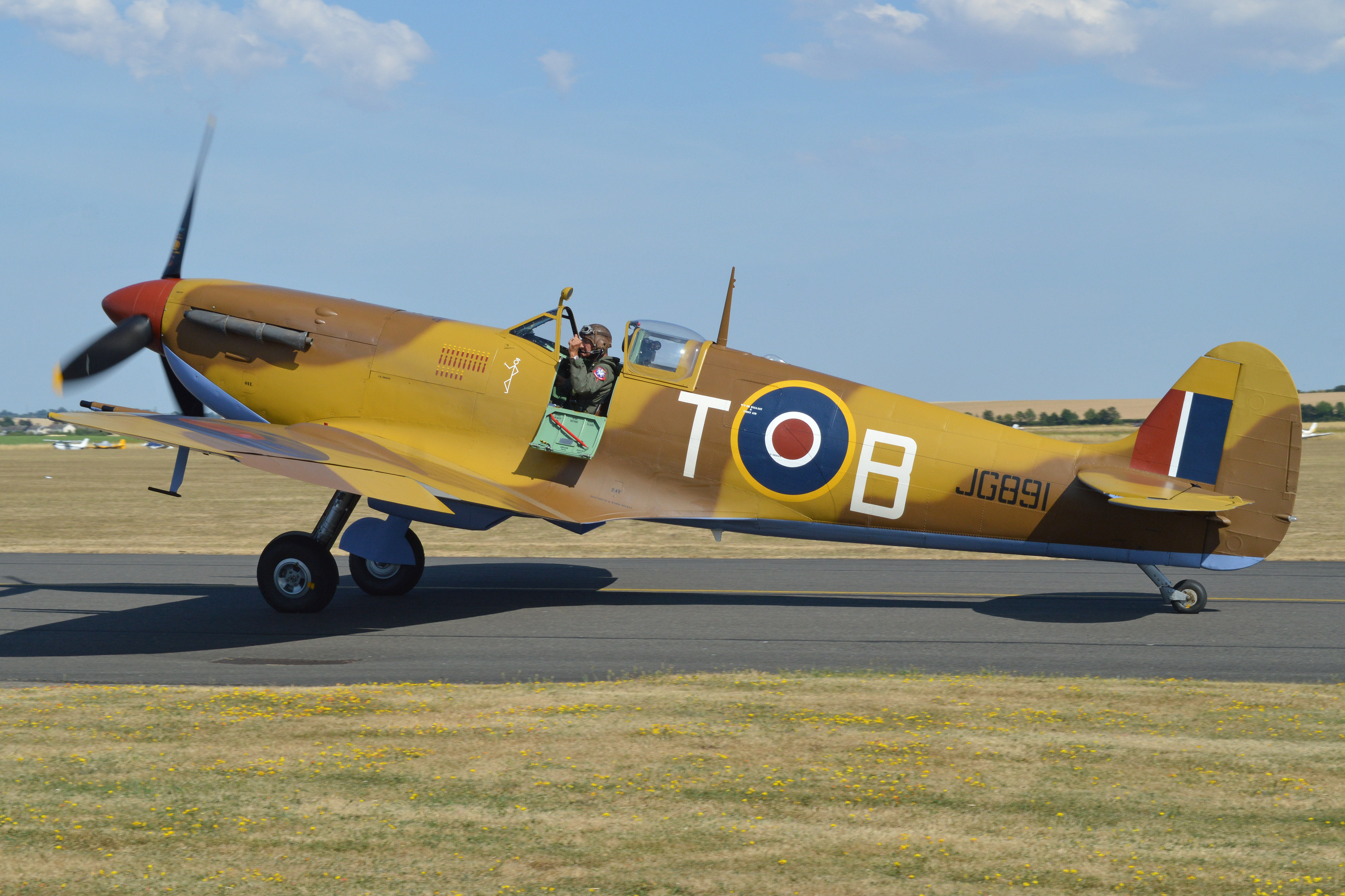 c/n unknown. Built at Castle Bromwich, JG891 was transferred to the Royal Australian Air Force in April 1943 as 'A58-178'. It crashed on landing and rolled over in New Guinea in January 1944 and next surfaced in New Zealand in 1974 as a stripped hulk. Registered as ZK-MKV, a restoration began using parts of EF545 but in 1999 it moved to Historic Flying at Audley End. She flew again in November 2006, now owned by Tom Blair and painted as 'T-B', a genuine scheme for a 249sqn aeroplane. Displayed in the UK throughout 2007, in early 2008 she moved to the USA and became N624TB. In July 2009 she joined Comanche fighters as N5TF and flew as 'RS-T' until a landing accident in July 2017 saw her returned to the UK for repairs, swapping with 'EP122', which was UK based at the time. She flew again only very recently and has returned to her 249sqn colours, although not, as yet, with the volks filter she was originally restored with. Looking gorgeous, she is seen taxiing in with Steve Hinton at the helm, after taking part in a USAF Heritage Flypast with a P-51 and F-35 Lightning II. 2018 Flying Legends Airshow. Duxford Airfield, Cambridgeshire, UK. 14th July 2018.